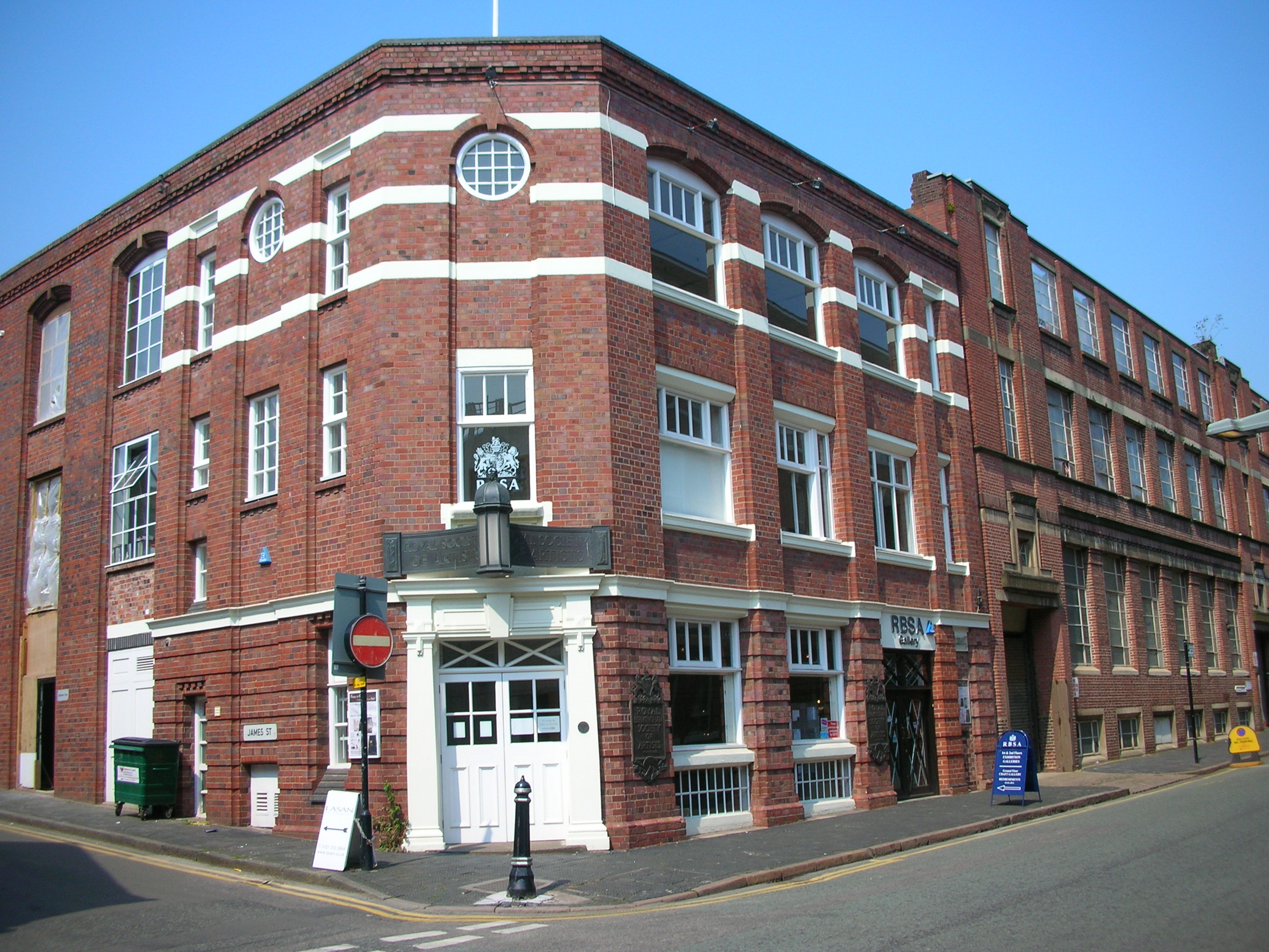 Royal Birmingham Society of Artists, St Pauls, Birmingham, England, photographed by me 10th May 2006.